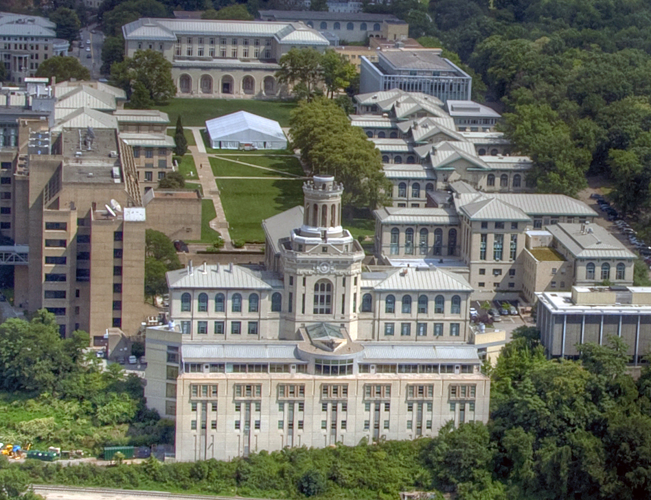 Shot with Nikon D90. Edited in Photoshop CS4. Window smudges made editing a bit tricky...